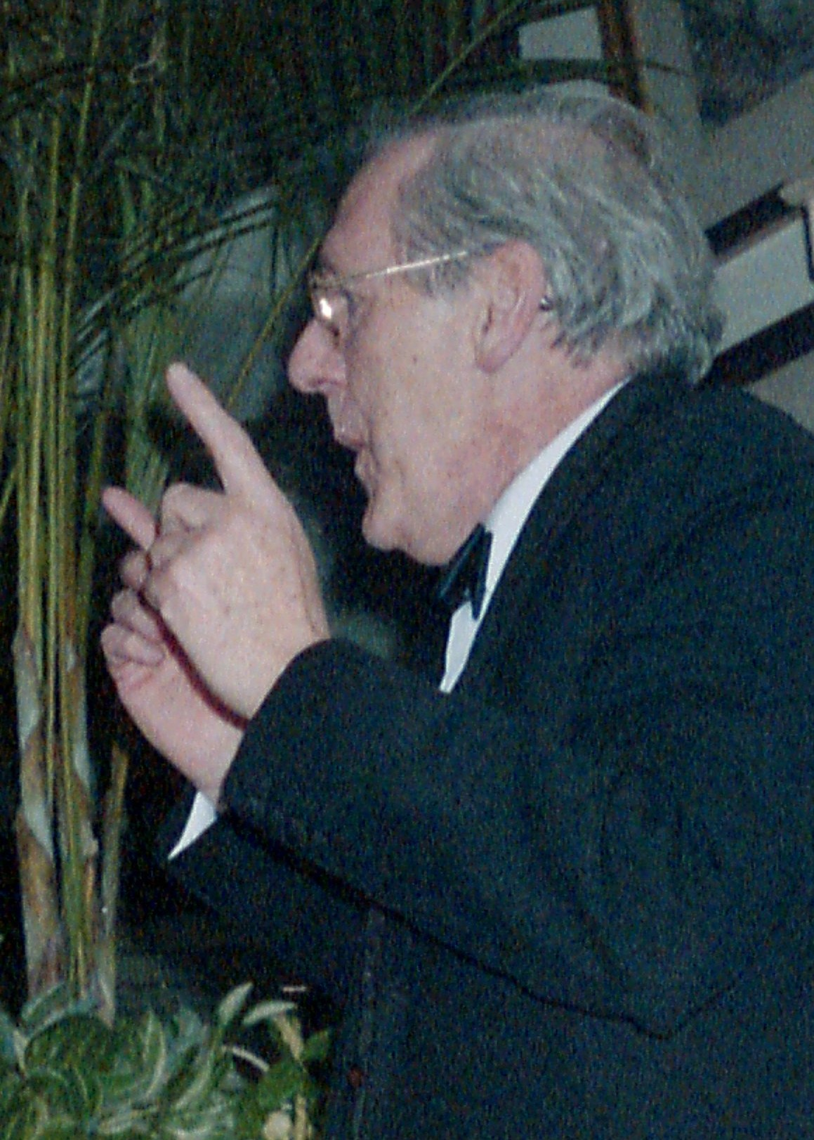 Brian Aldiss, science fiction writer